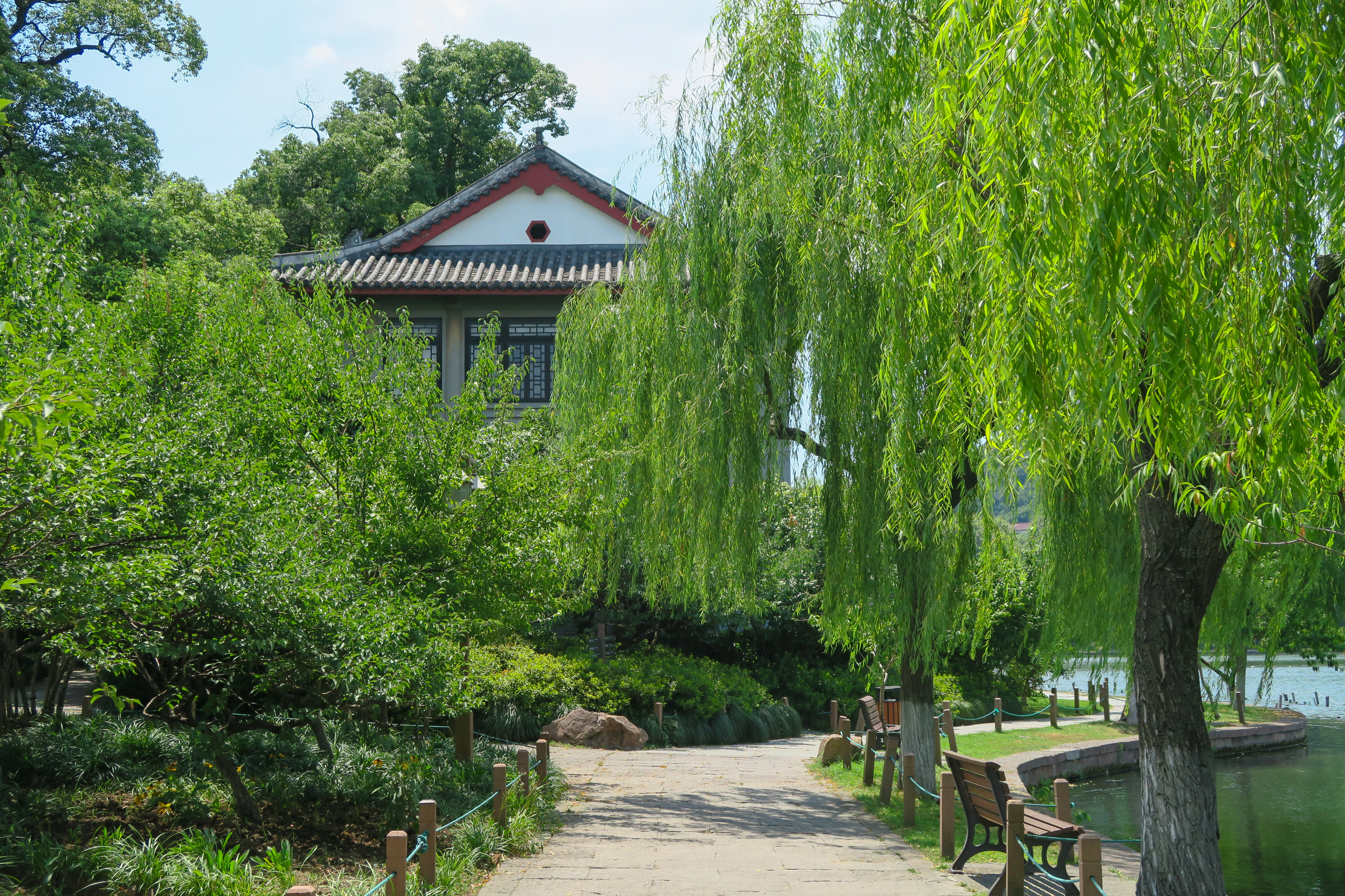 Gushan Park, Hangzhou